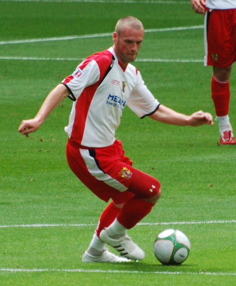 Andy Drury. Image cropped from original at flickr.